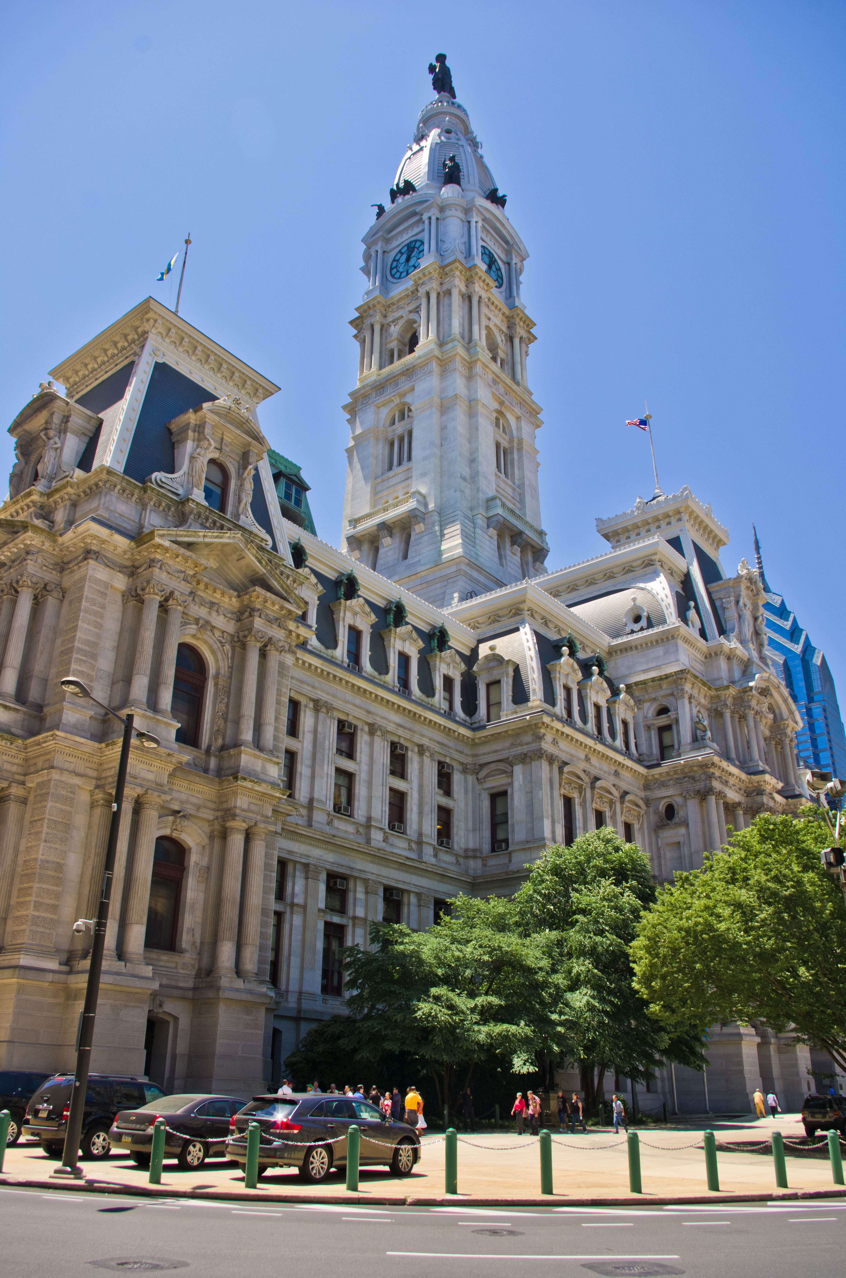 Philadelphia City Hall